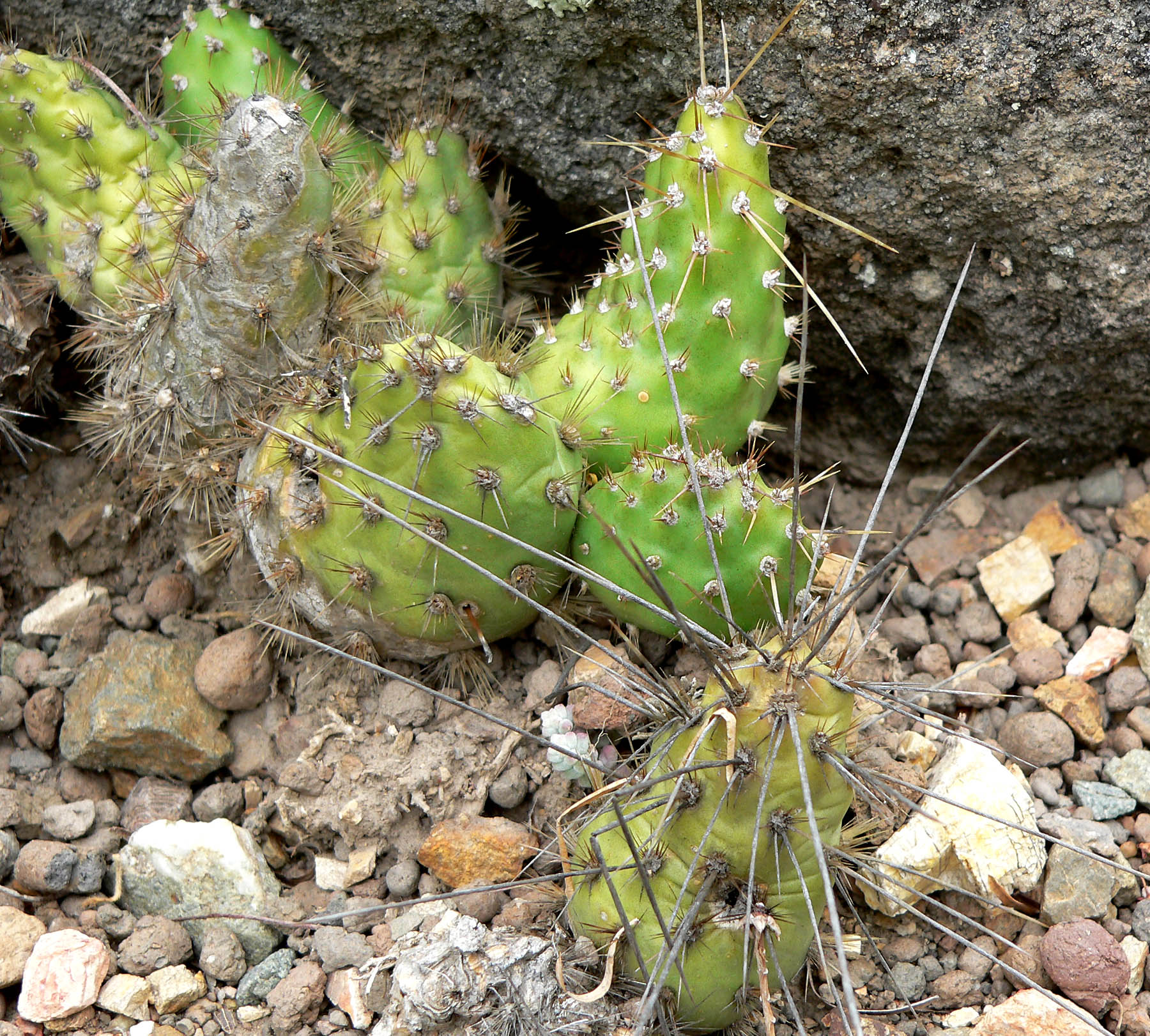 Photo of Tunilla soehrensii at the University of California Botanical Garden